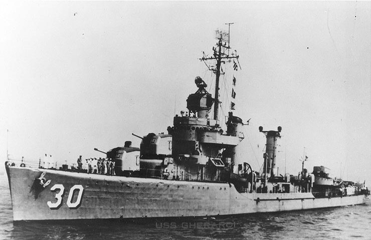 USS Gherardi (DMS-30) Photographed circa the later 1940s or the early 1950s. Courtesy of Donald M. McPherson, 1974. U.S. Naval Historical Center Photograph. Image cropped from